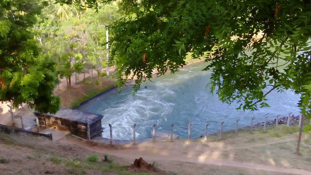 This image displays the starting point of Yodha Ela (Jaya Ganga) canal. The purpose of uploading this image is to add it to an article about the canal to visually describe how it starts.